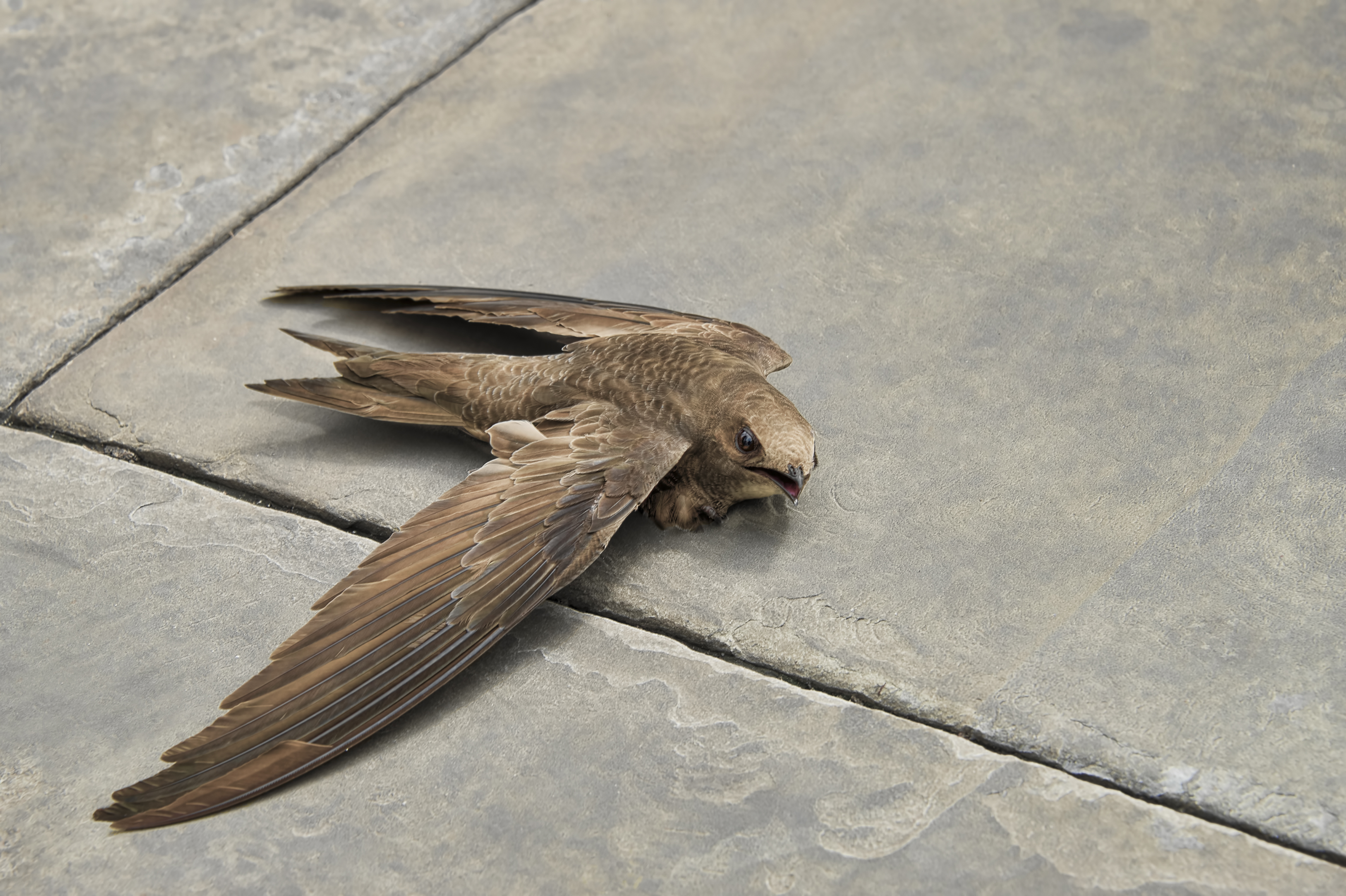 Pallid Swift Apus pallidus, Convent Square, Gibraltar